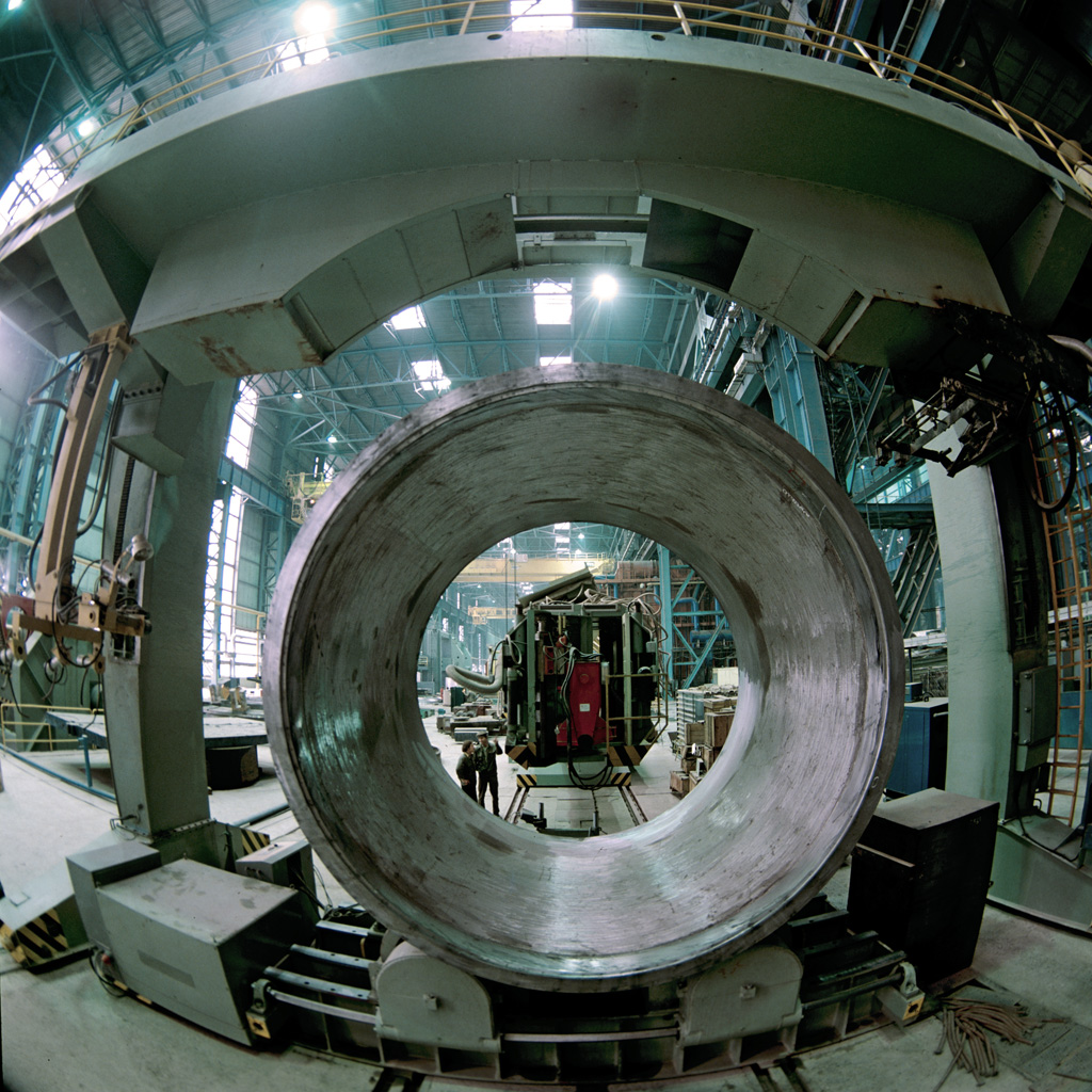 “Facility for treatment of large-size reactor parts”. Atommash Volga-Don Association of Enterprises for Nuclear Power Engineering and Industry. Facility for treatment of large-size reactor parts.